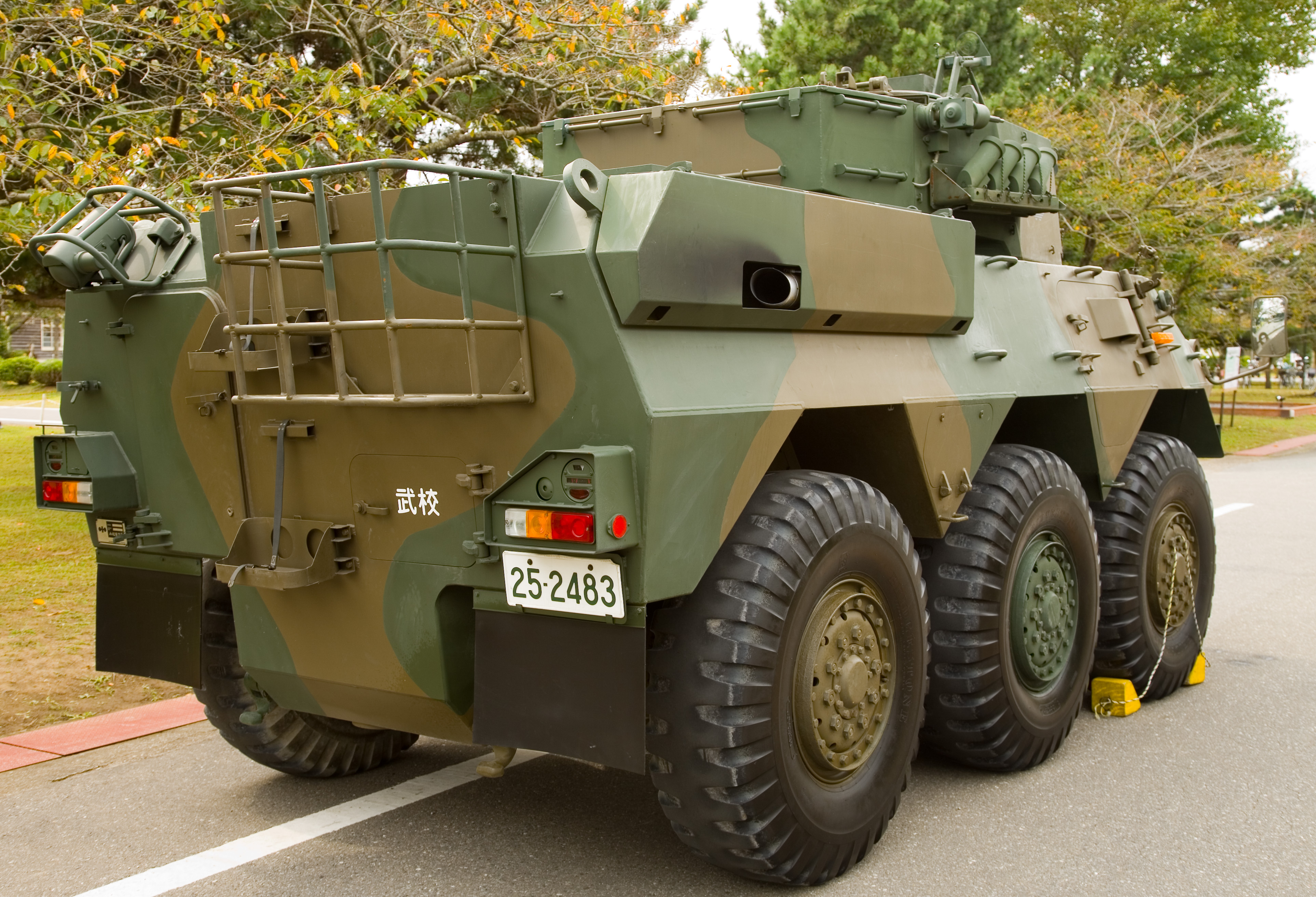 A Type 87 Scout/Recon. vehicle on display at the JGSDF Ordnance School in Tsuchiura, Kanto, Japan.